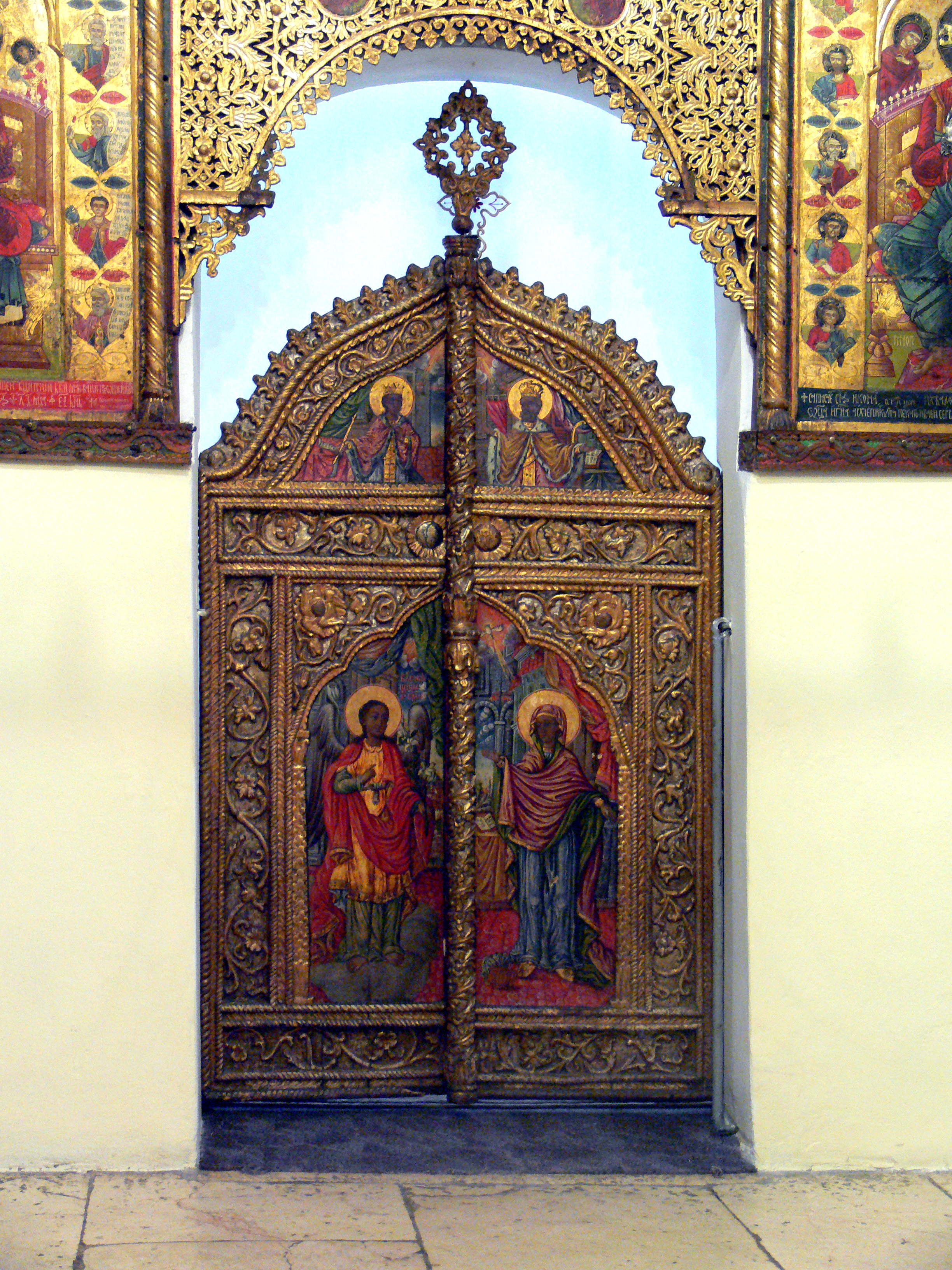 The old arthodox church in Sarajevo. The oldest sacral building in Sarajevo. Interior.